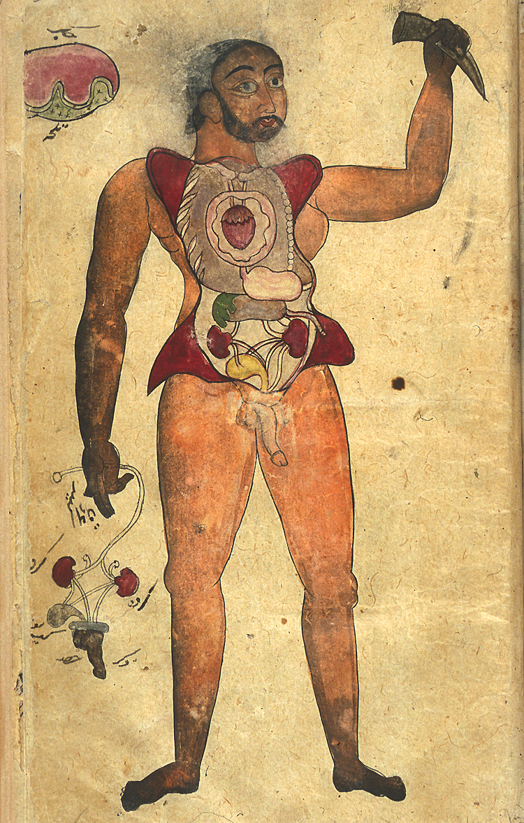 anatomy of man made by Muḥammad Arzānī (d. 1722/ 1134) ink and opaque watercolors, of a male figure with his abdomen and chest opened to reveal the internal organs India original book now is in